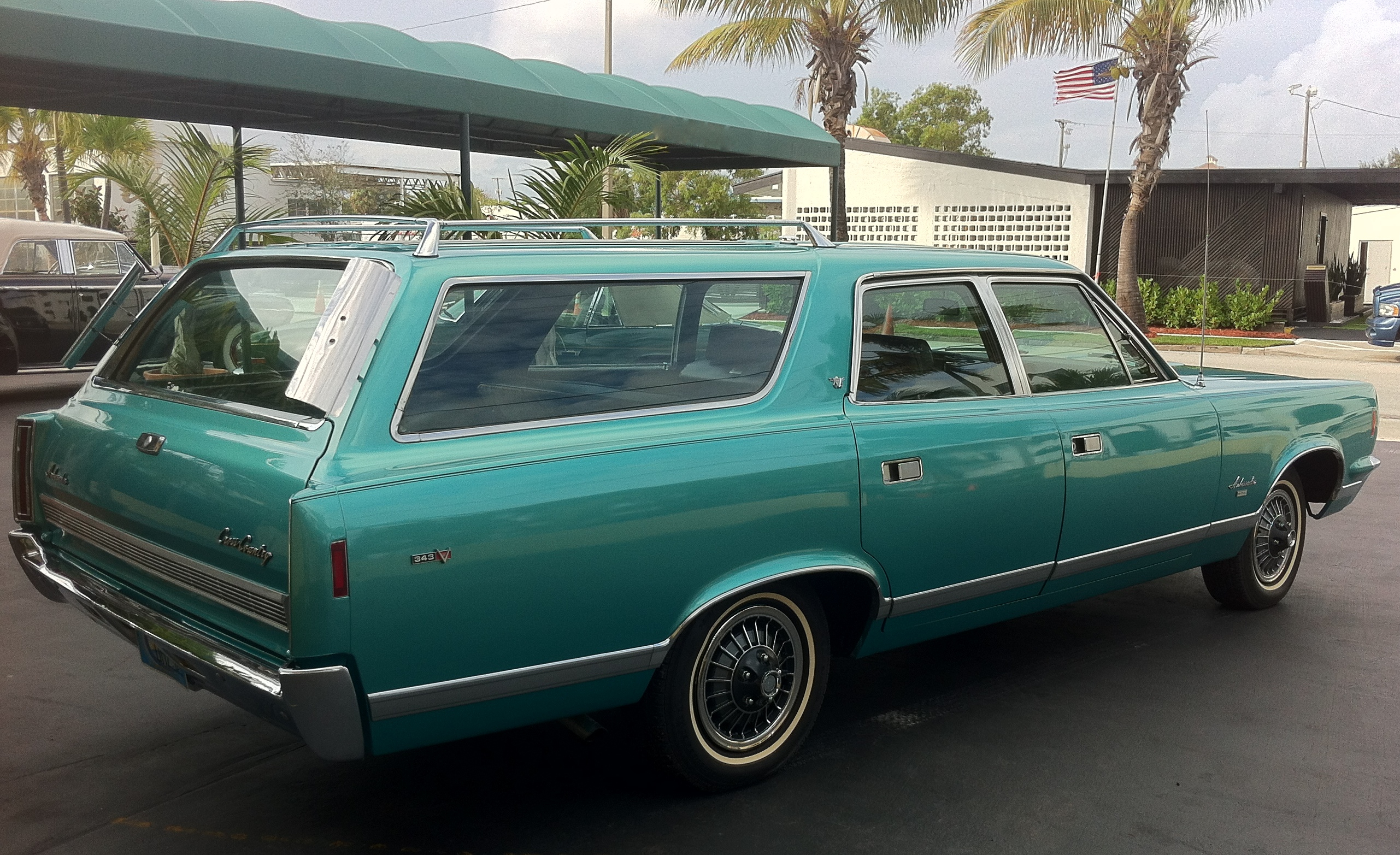 1968 AMC Ambassador, a full-size automobile made by American Motors Corporation. This DPL "Cross Country" station wagon has the 343 CID (5.6 L) V8 engine and factory standard air conditioning, as well as the roof cargo rack and a two-way opening tailgate (drop down for long cargo or opens as a door hinged on the left side). This car has the standard individual adjustable reclining front seats and seating capacity for six adults. It has AMC's optional "Turbocast" full wheel covers. However, the air deflectors mounted on the rear sides are aftermarket accessories to help reduce accumulation of dust/dirt on the tailgate window.